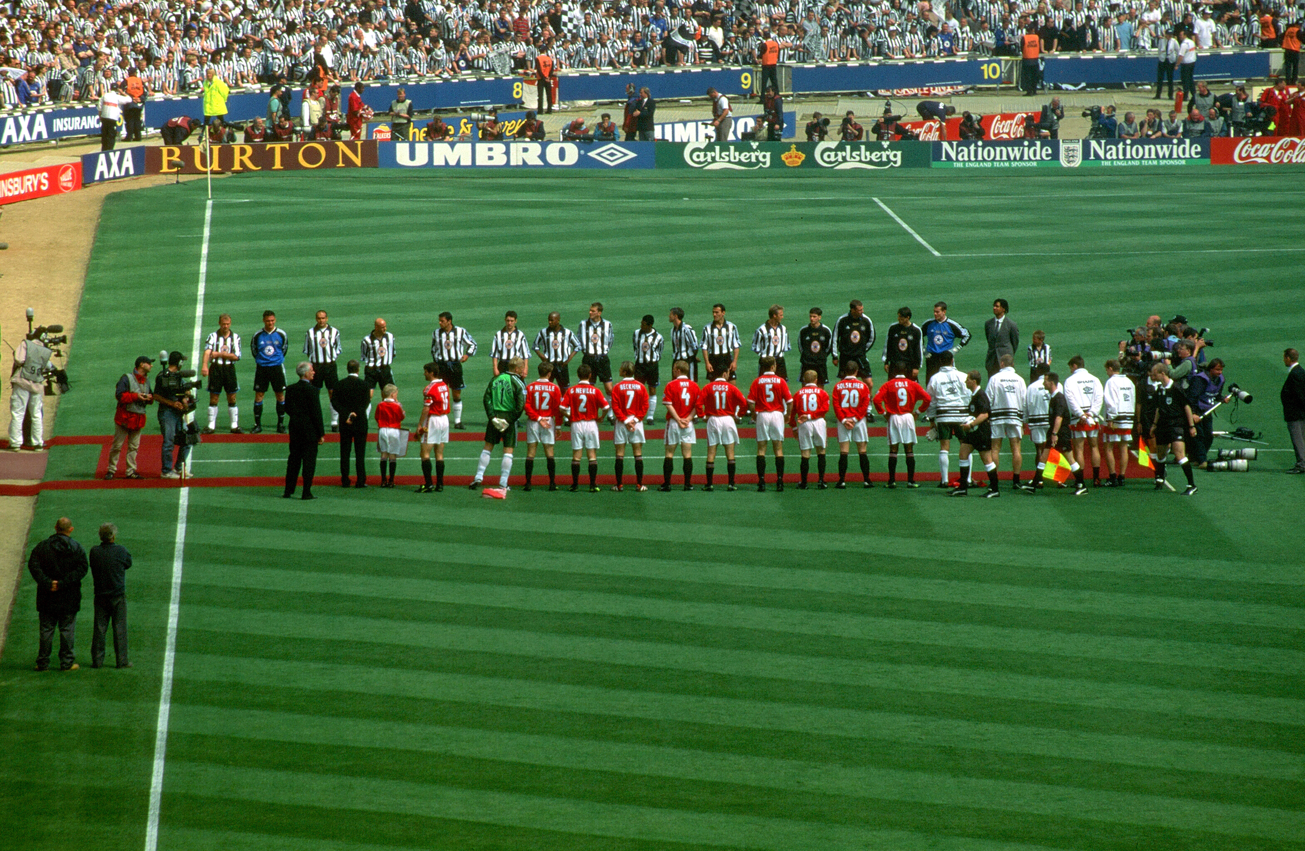 The Manchester United and Newcastle United teams line up ahead of the 1999 FA Cup Final